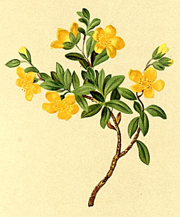 Helianthemum alpestre